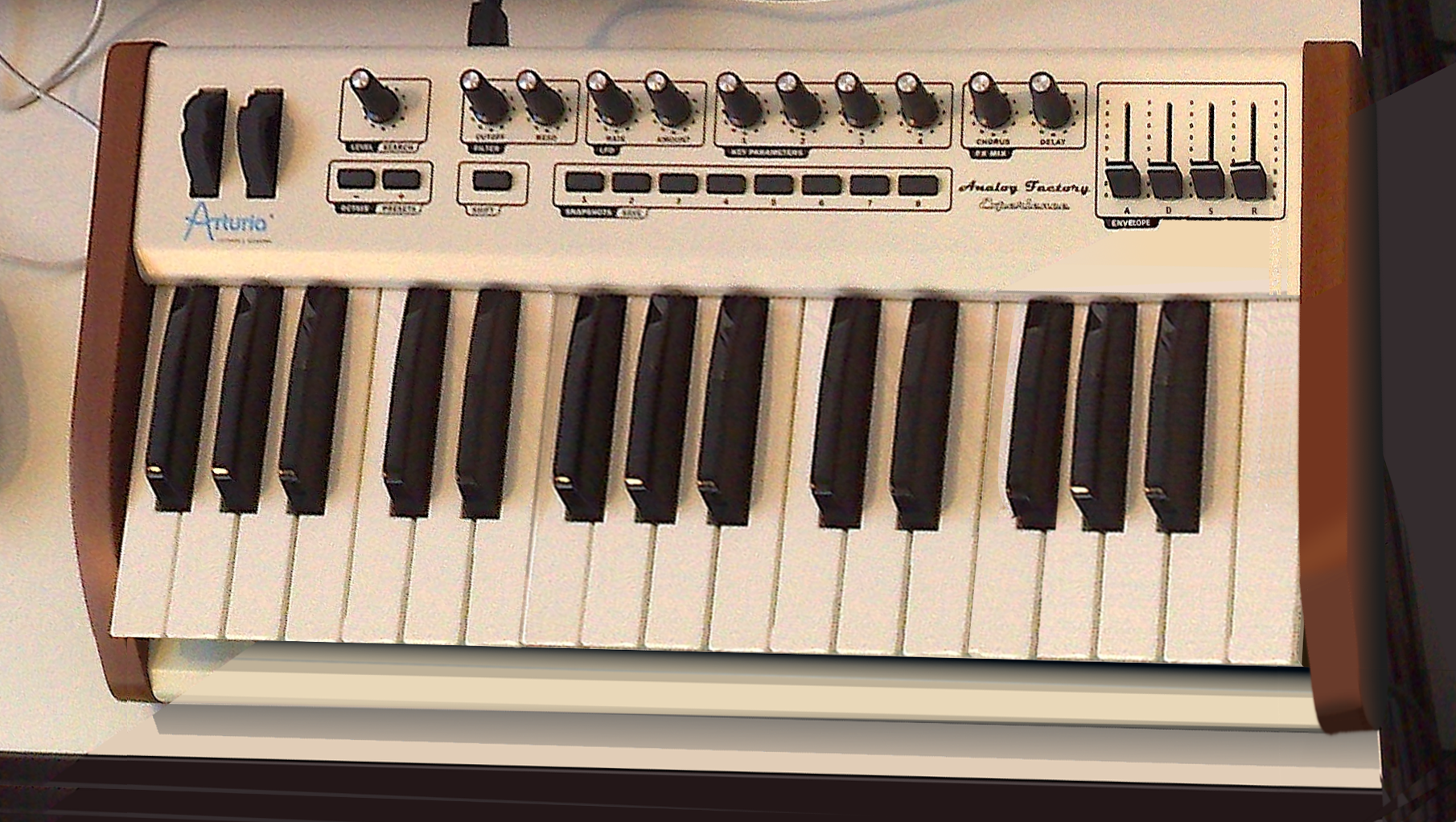 Arturia Analog Factory Experience Arturia Analog Factory (& Euphonix MC mix & control) @ AES 124th Convention